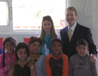 Greek Roma kids from Aspropyrgos, Western Attica.